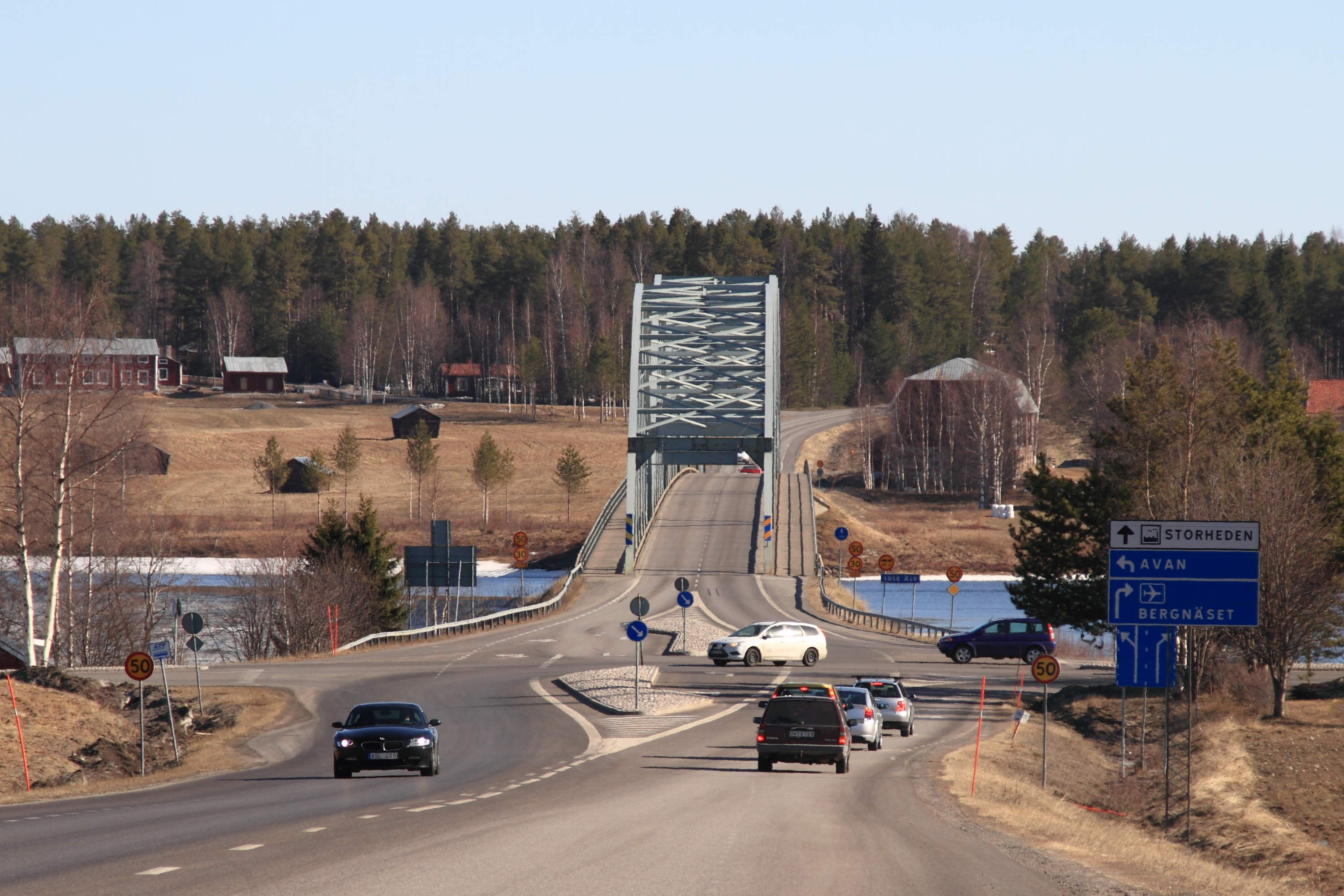 Gamla Gäddviksbron over Lule River in Norrbotten, Sweden. View from west.